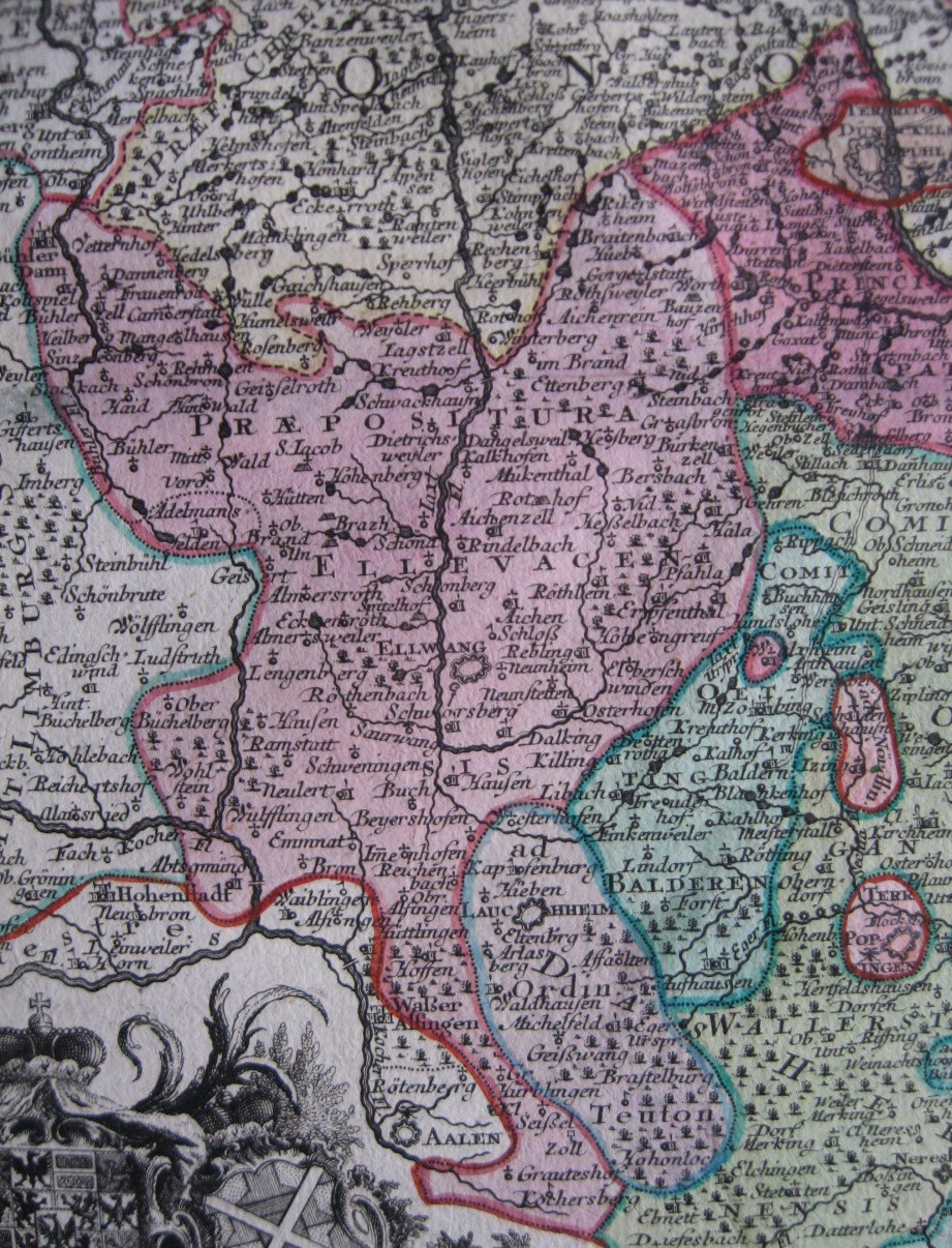 Territory of the Prince-Provostry of Ellwangen. Cropped from a map of the principality of Ansbach and neighboring states published by Matthaüs Seutter in 1760 (Marchionatus Onoldini, Comitatus Oettingensis, Praepositurae Elevacensis et Pappenheimensis Dynastiarum)